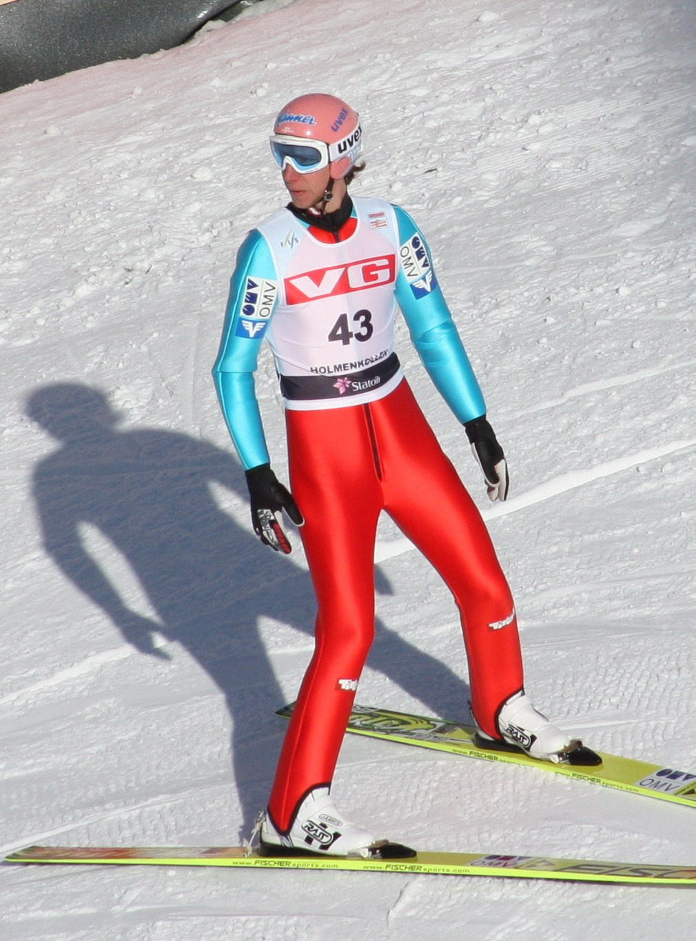 Martin Koch (AUT) after having finished his 2nd jump in Holmenkollen, WC Oslo, 14 march 2010